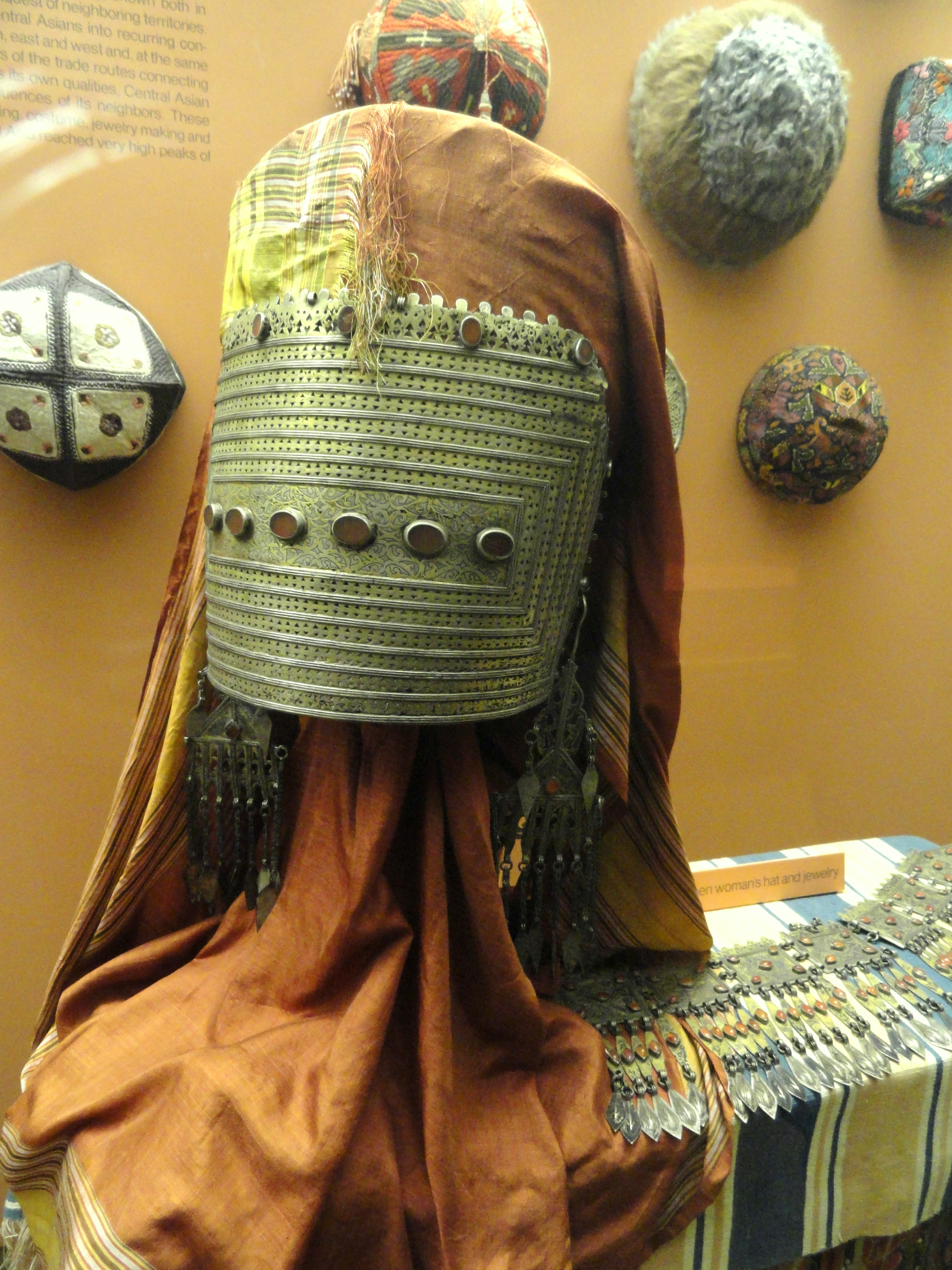 Exhibit in the Asian collection of the American Museum of Natural History, Manhattan, New York City, New York, USA.